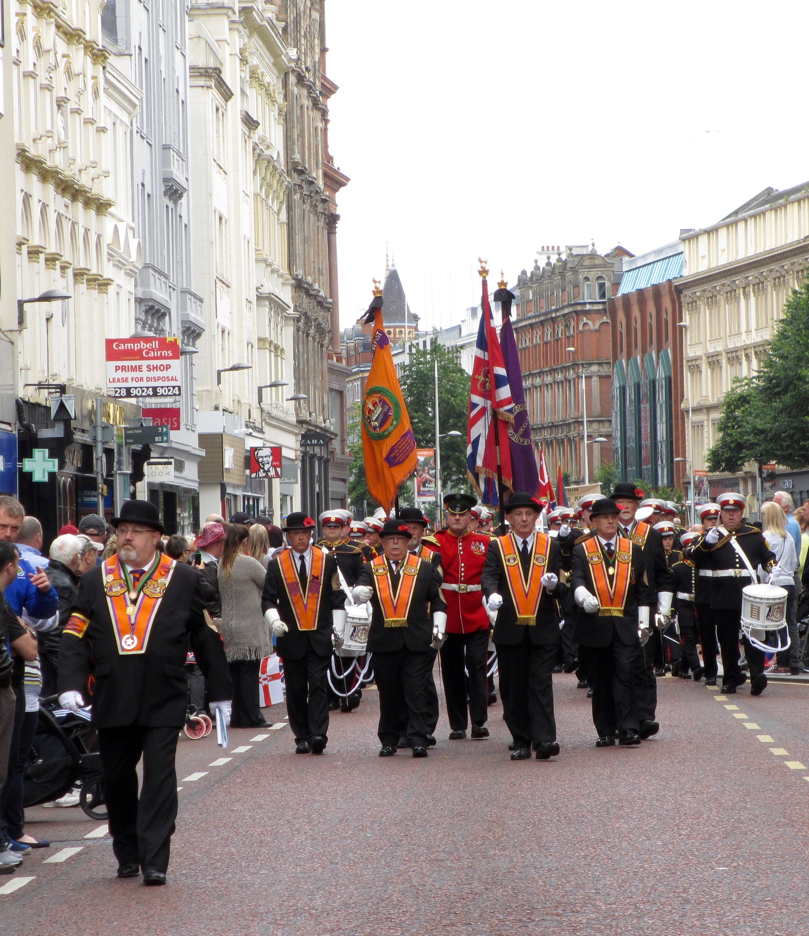 Orange Parade 12 July '16 Belfast Donegall Place